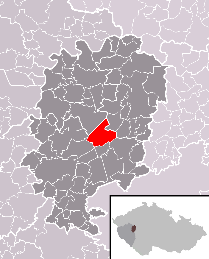 Location of Těškov municipality within Rokycany District and within identical administrative area of Rokycany as a Municipality with Extended Competence.